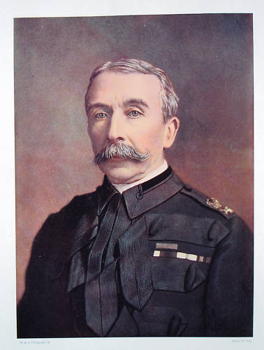 "General Sir Edward Francis Chapman (Commanding the Troops in Scotland)", coloured lithograph, from an original portrait, publ. by Elliott & Fry, circa 1899